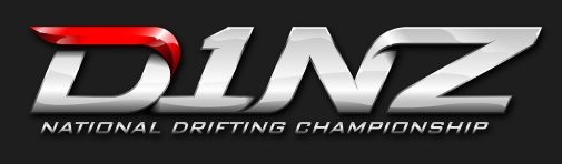 Official Logo of the D1NZ 2019 Series.